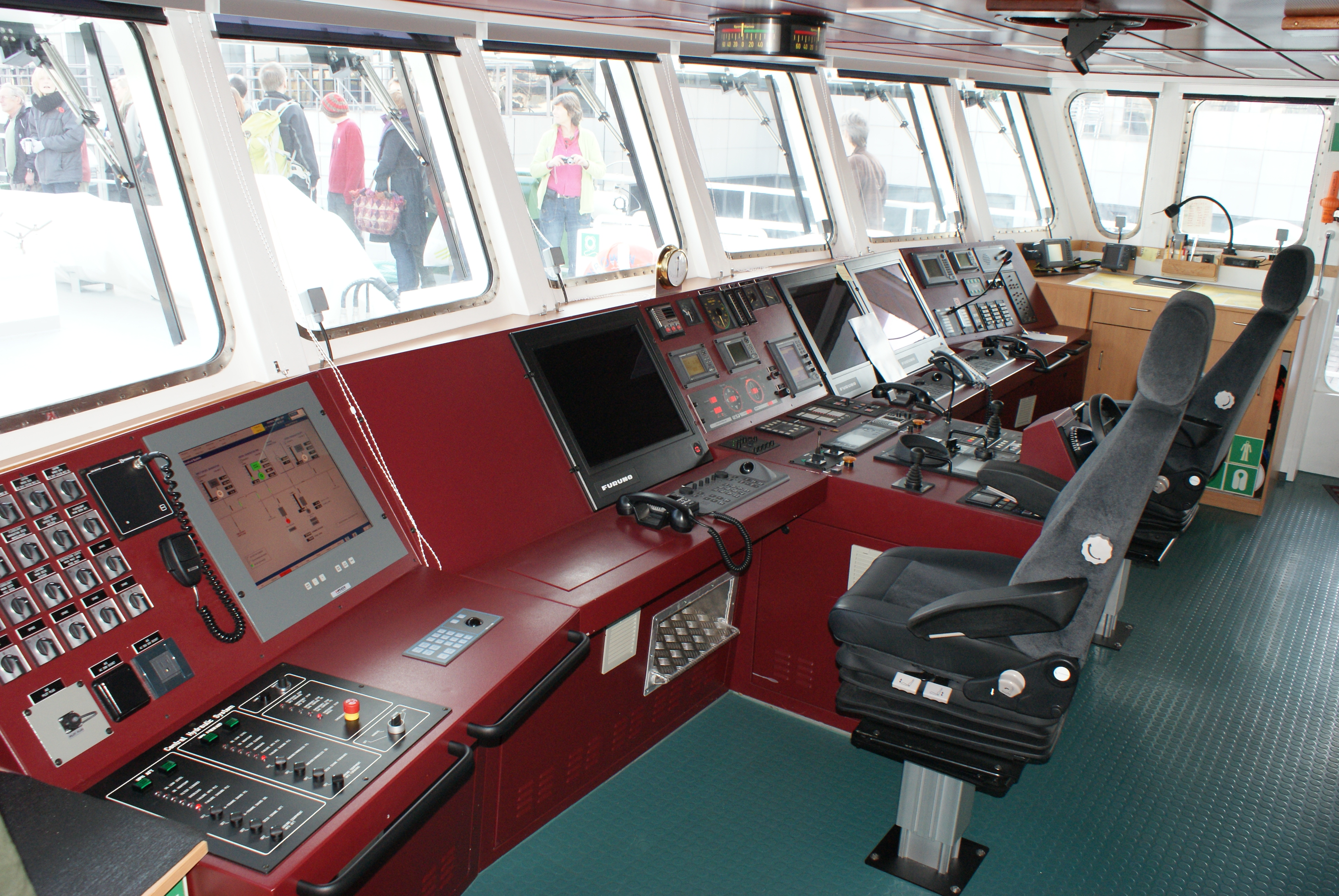 View of the new Rainbow Warrior III's bridge. West India Docks, London.